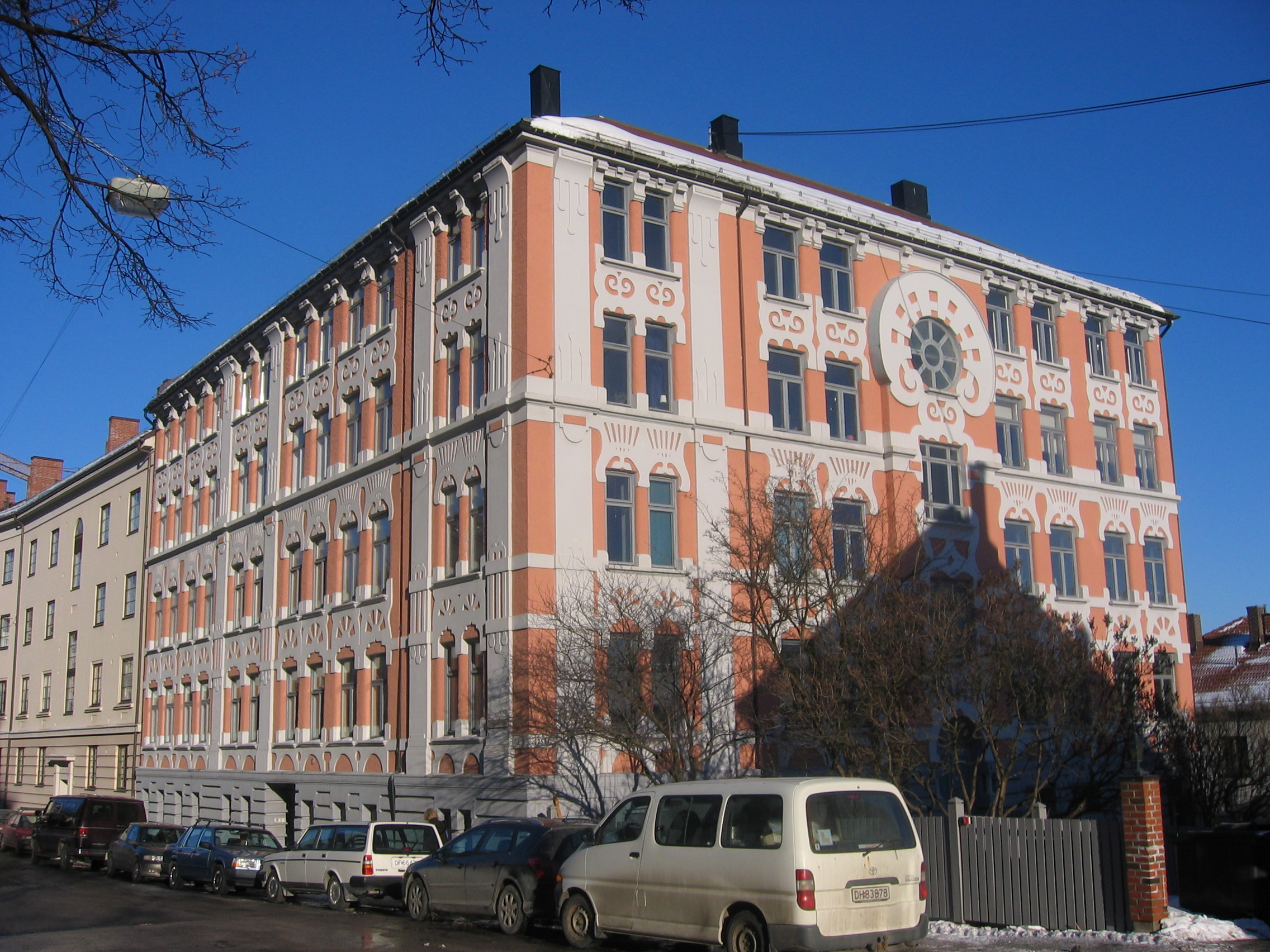 Fougstads street No. 25 in Oslo, art nouveau 1903, arch. Hans Grønneberg. Taken by myself with my own camera